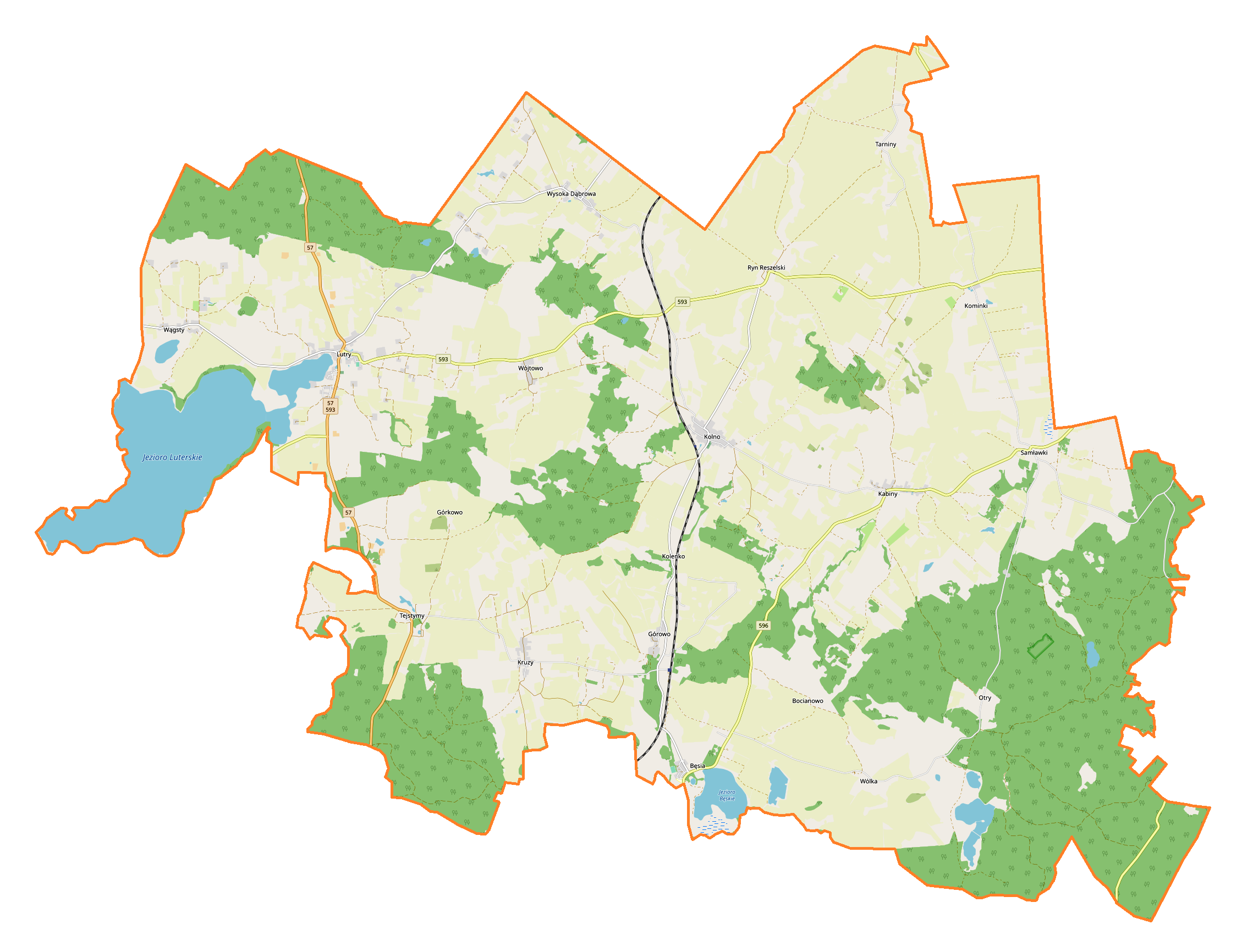 Location map